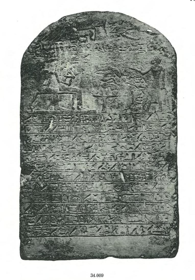 Ancient Egyptian sandstone stela of the priest Yuf. According to the text, Yuf was appointed priest by queen Ahhotep at the very beginning of the 18th Dynasty, and he was also in charge of the restoration of the tomb of queen Sobekemsaf of the 17th Dynasty. From Edfu in Upper Egypt, Early 18th Dynasty, New Kingdom. Now In Cairo Museum, CG 34009.